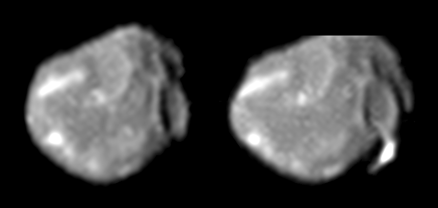 Amalthea, as photographed by the Galileo spacecraft. The left photograph is from August 12, 1999 at a range of 446,000 kilometers. The right photo is from November 26, 1999 at a range of 374,000.